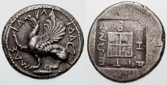 THRACE, Abdera. Circa 460-440 BC. AR Tetradrachm (29.84 gm). Griffin seated left, right paw raised; magistrate ΚΑ-ΛΛ-ΙΔΑ-ΜΑΣ (Kallidamas) / ΑΒΔ-ΗΡ-ΙΤΕ-ΩΝ (Abdēriteōn), raised, outlined quadripartite square; all within larger incuse square. May 147 (A120/P120); Boston MFA 755 (same dies); Jameson 1031 (same obverse die); Gulbenkian 444 (same dies). Toned, good VF, surfaces a little grainy. Rare. ($2000) From the Robert Schonwalter Collection.